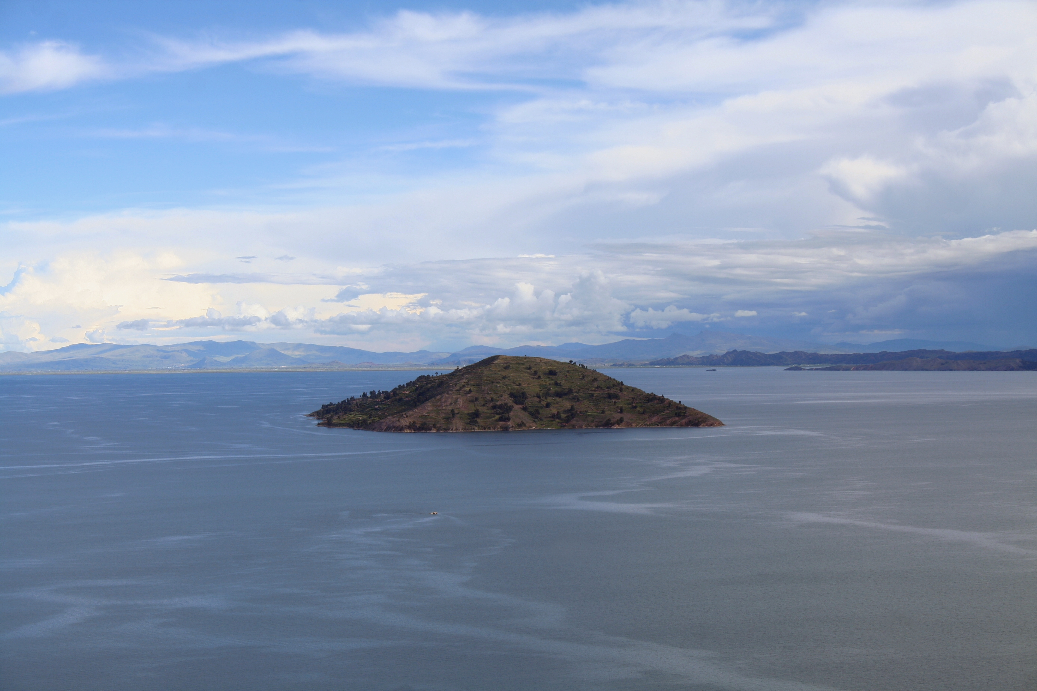 Taquile Island from Amantani Island / Titicaca Lake, Peru